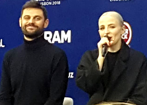 French band Madame Monsieur on May 2018.